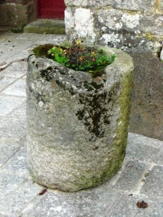 One of Lizio's ossarium.